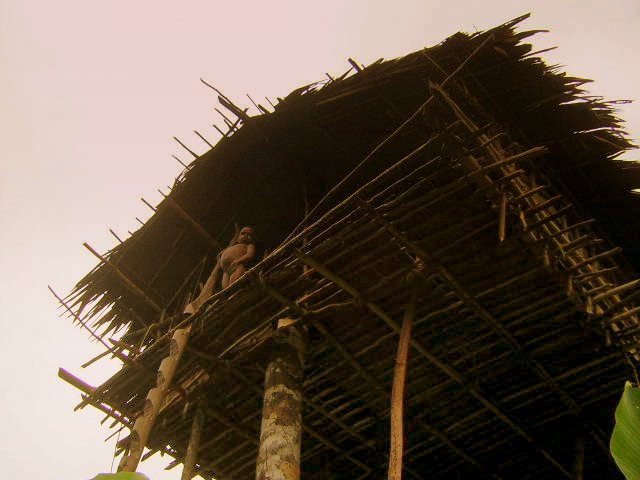 Treehouse of the Korowai tribe in Papua New Guinea.